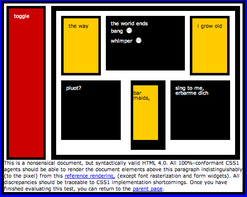 This is a screenshot of the performance of the alpha release of Opera 10 on the Acid1 test